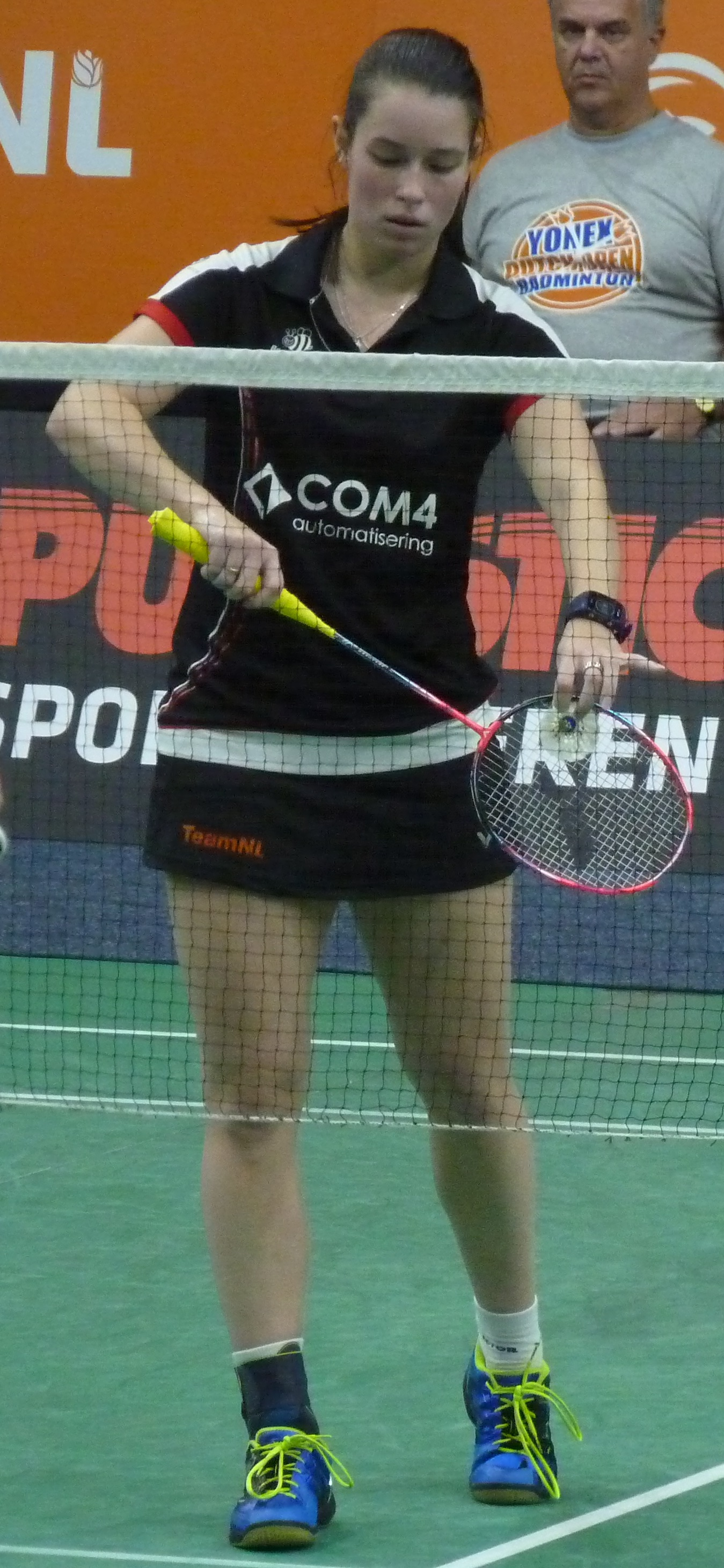 Cheryl Seinen (NED)